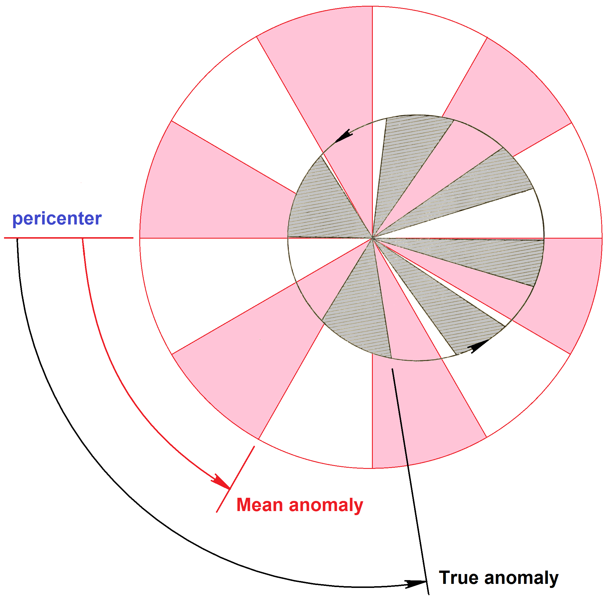 Diagram of equal areas swept in equal time, both in a circular orbit and an elliptical orbit. Illustrates the concept of mean anomaly.